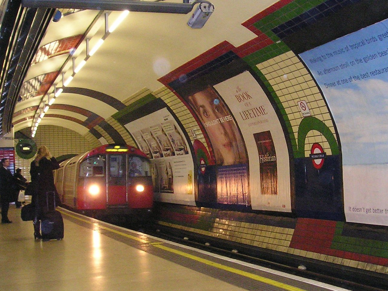 Piccadilly Circus tube station, Piccadilly Line Author:Dani_7C3 Date:17 February 2006